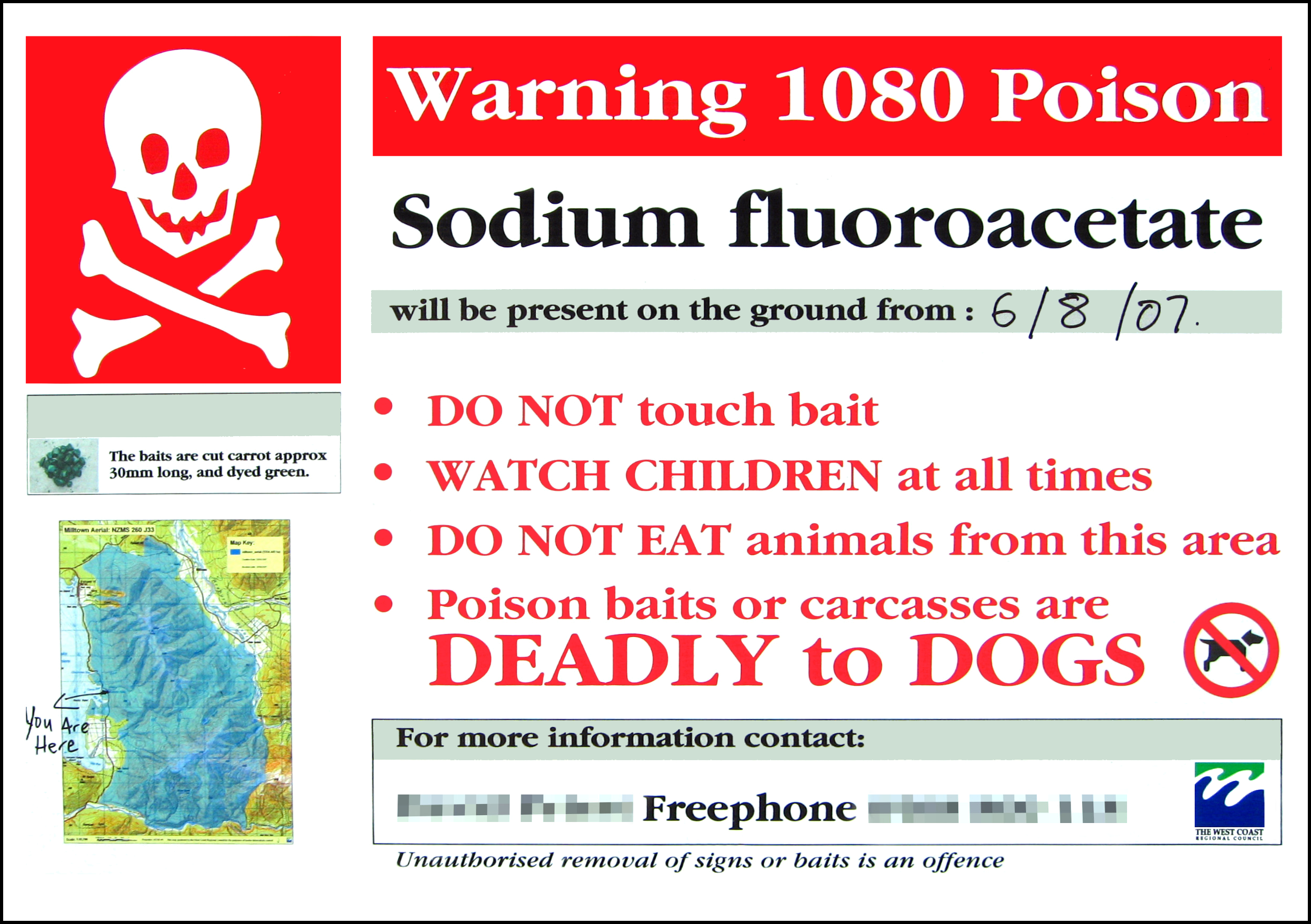 Sign warning of the presence of 1080 poison (sodium fluoroacetate) near Lake Kaniere on the West Coast of New Zealand